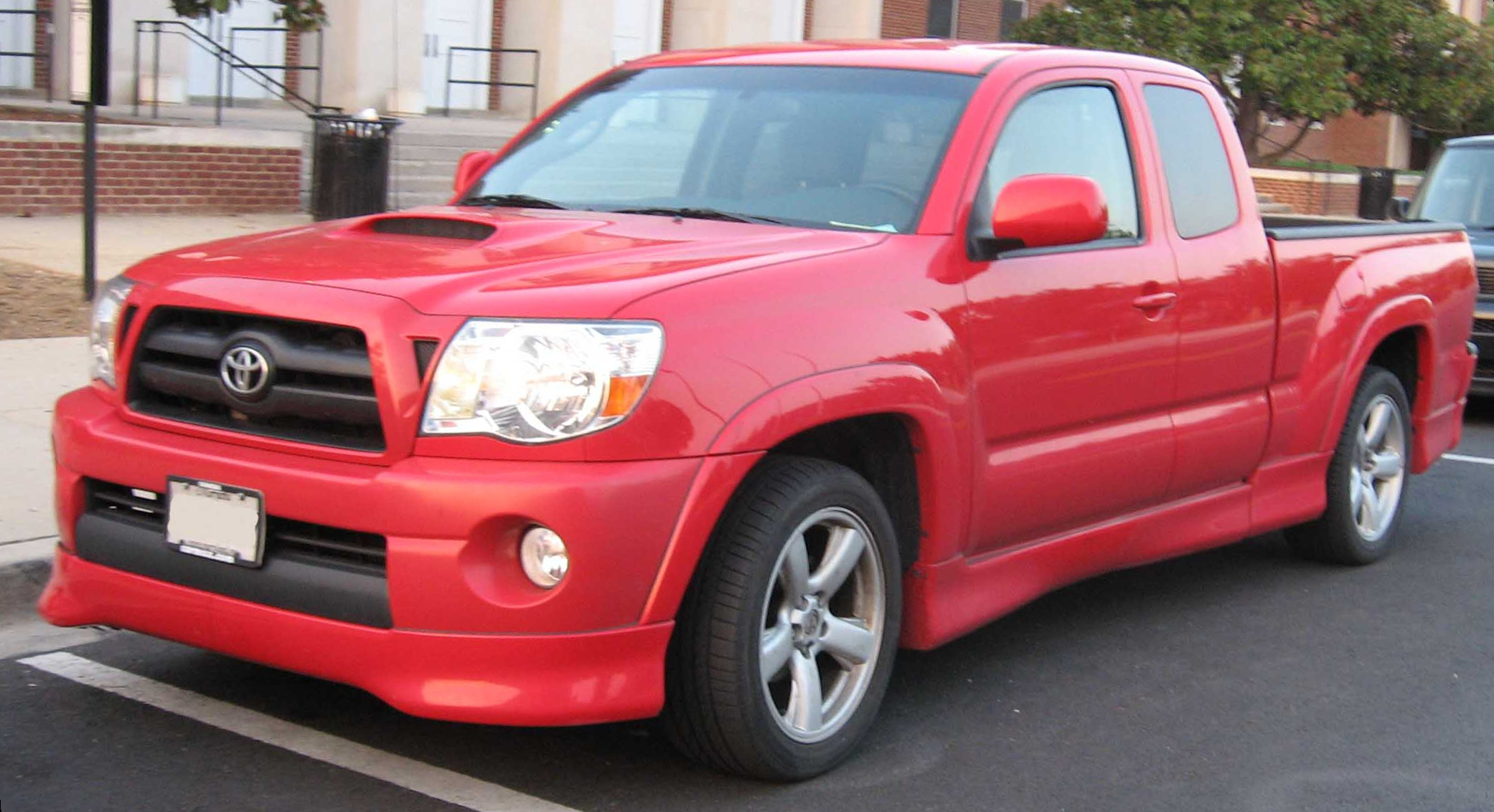 2005-2007 Toyota Tacoma photographed in USA.